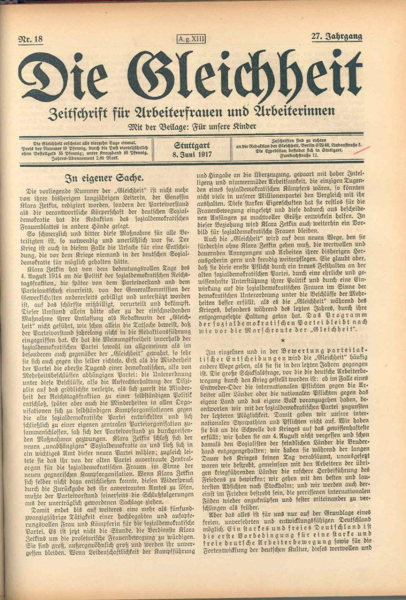 Cover page of the socialist women's journal Die Gleichheit (Equality) edited by Clara Zetkin (1857–1933)